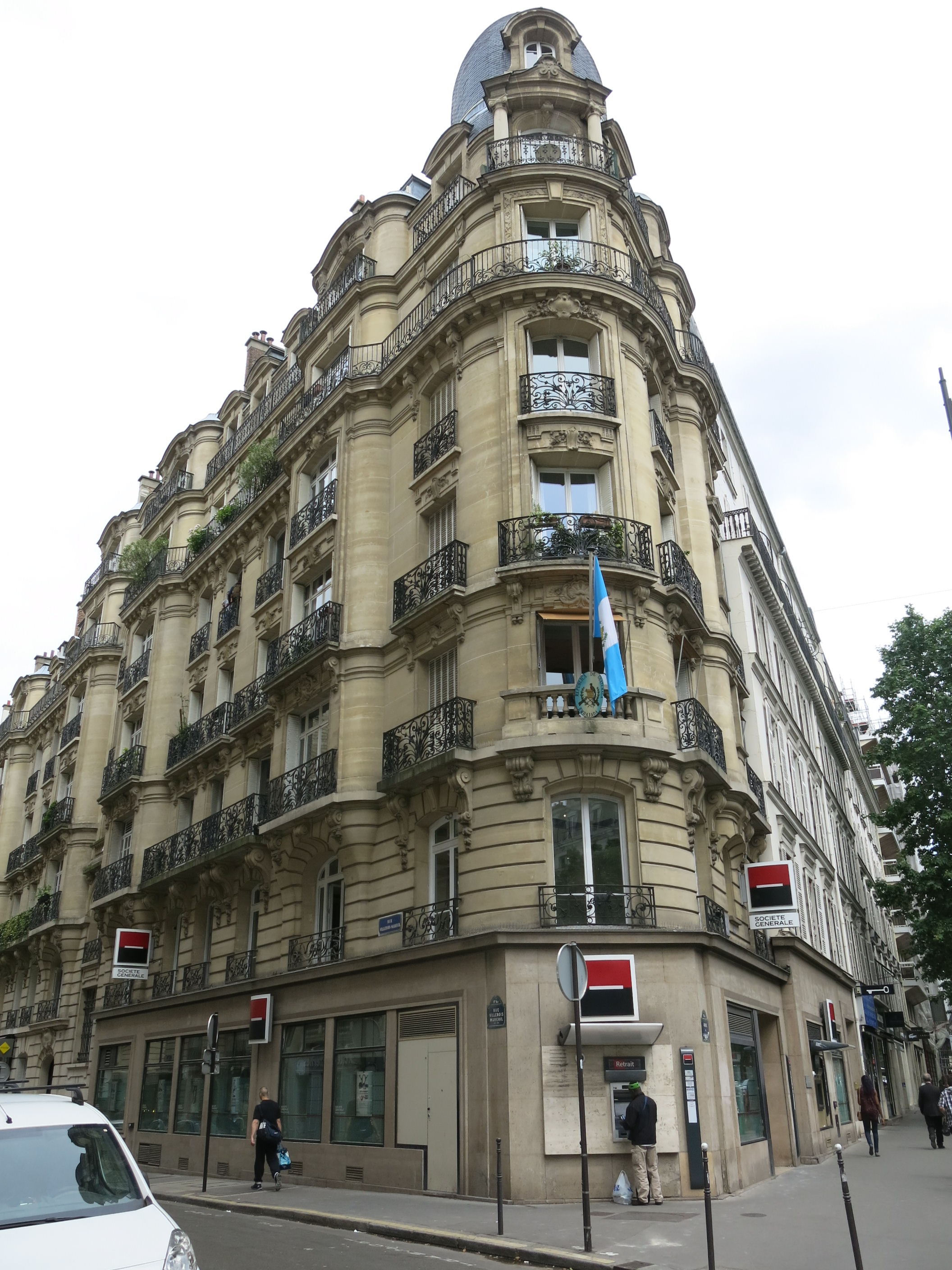 Building 2 rue Villebois-Mareuil at the corner with the avenue des Ternes, Paris 17th arrond. (France). In 2016, it is the embassy of Guatemala.